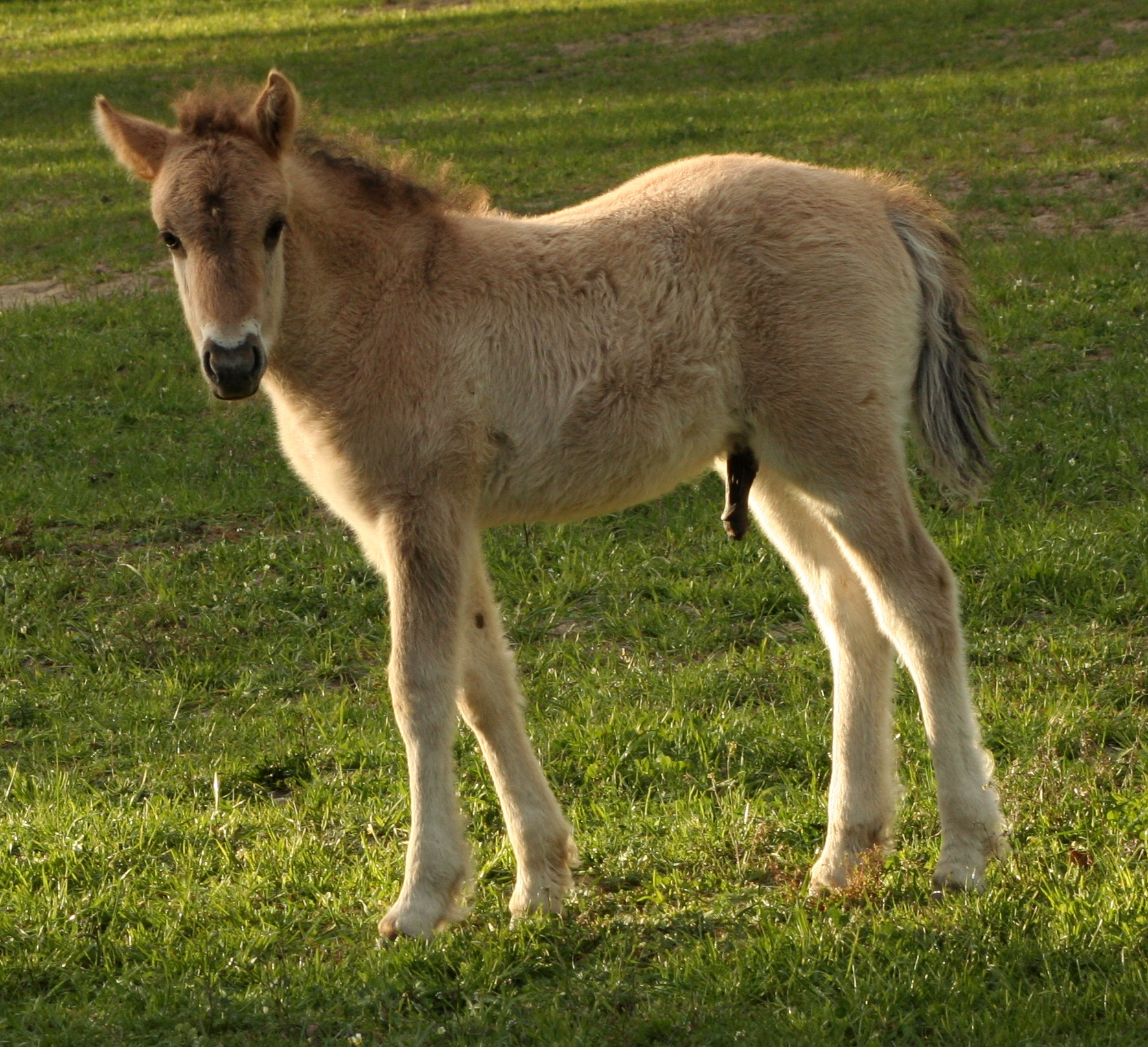 Konik